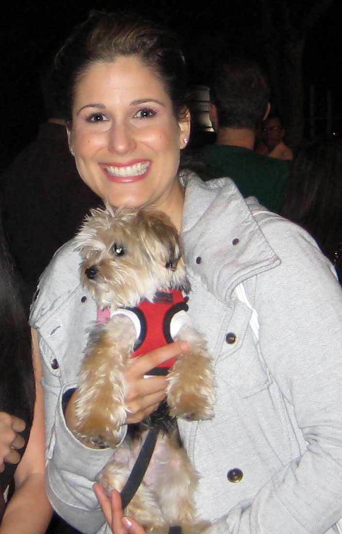 Stephanie J. Block at the Ahmanson Theater stage door.